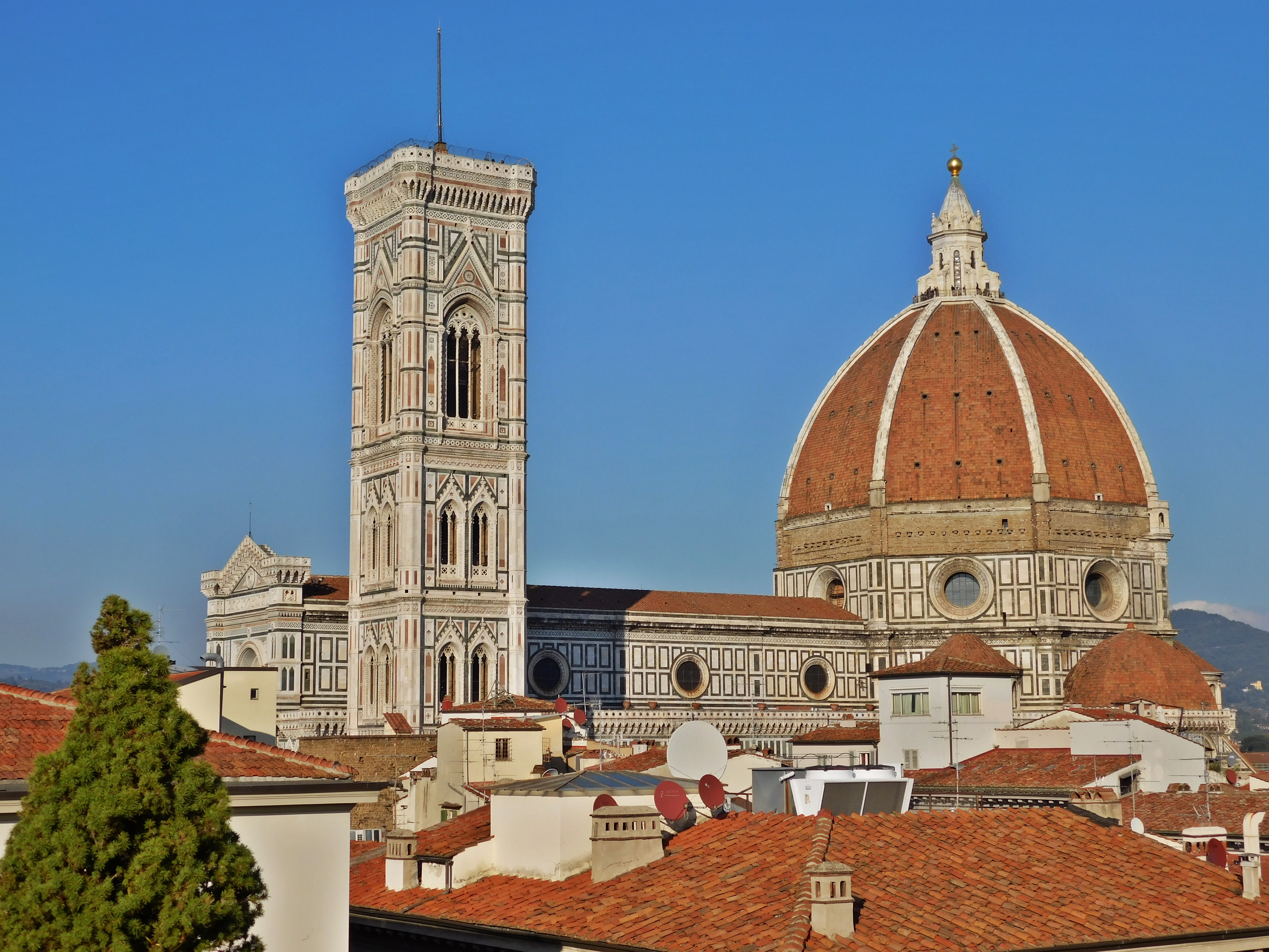 Florence, the Cathedral of Santa Maria del Fiore